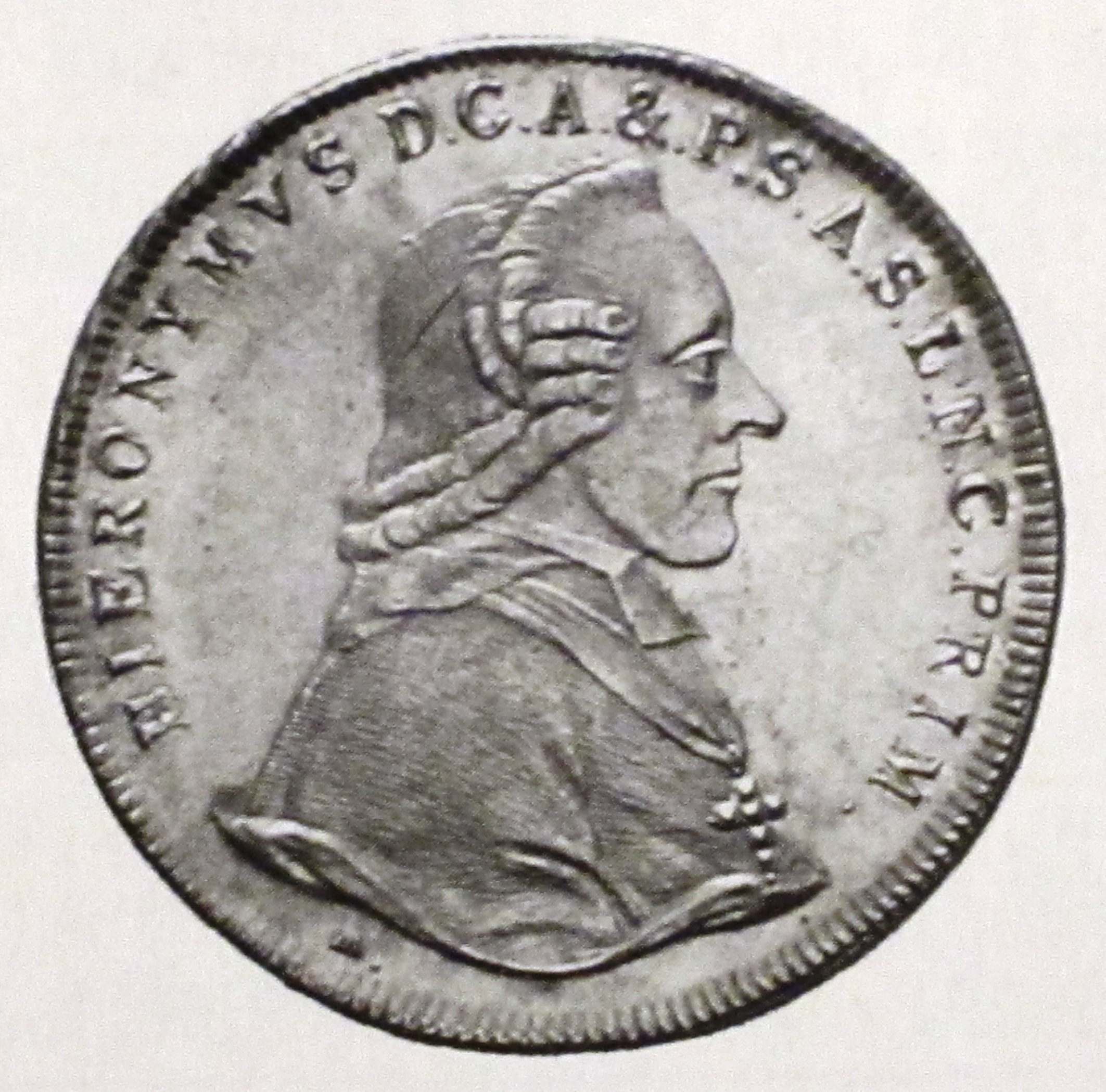 Hieronymus von Colloredo (1732-1812), Taler 1803